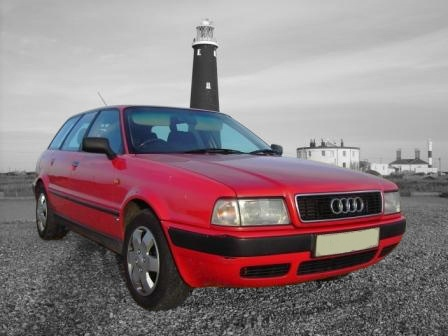 Audi 80 Avant 1,9TDI, UK specification